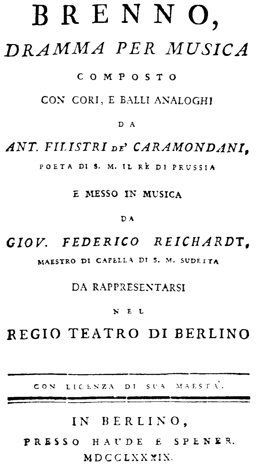 Reichardt - Brenno - italian title page of the libretto, Berlin 1789